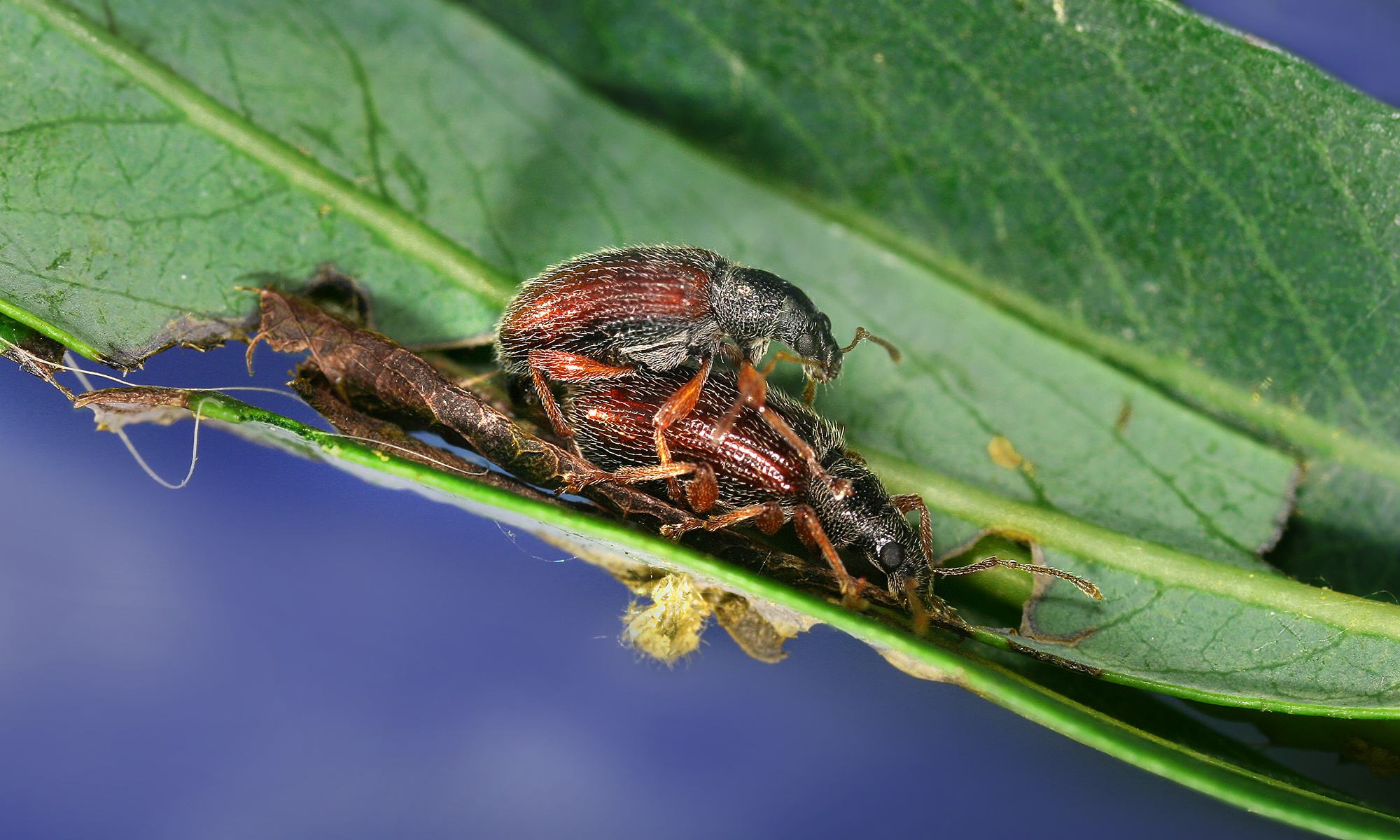 mating couple of weevils(Phyllobius oblongus).